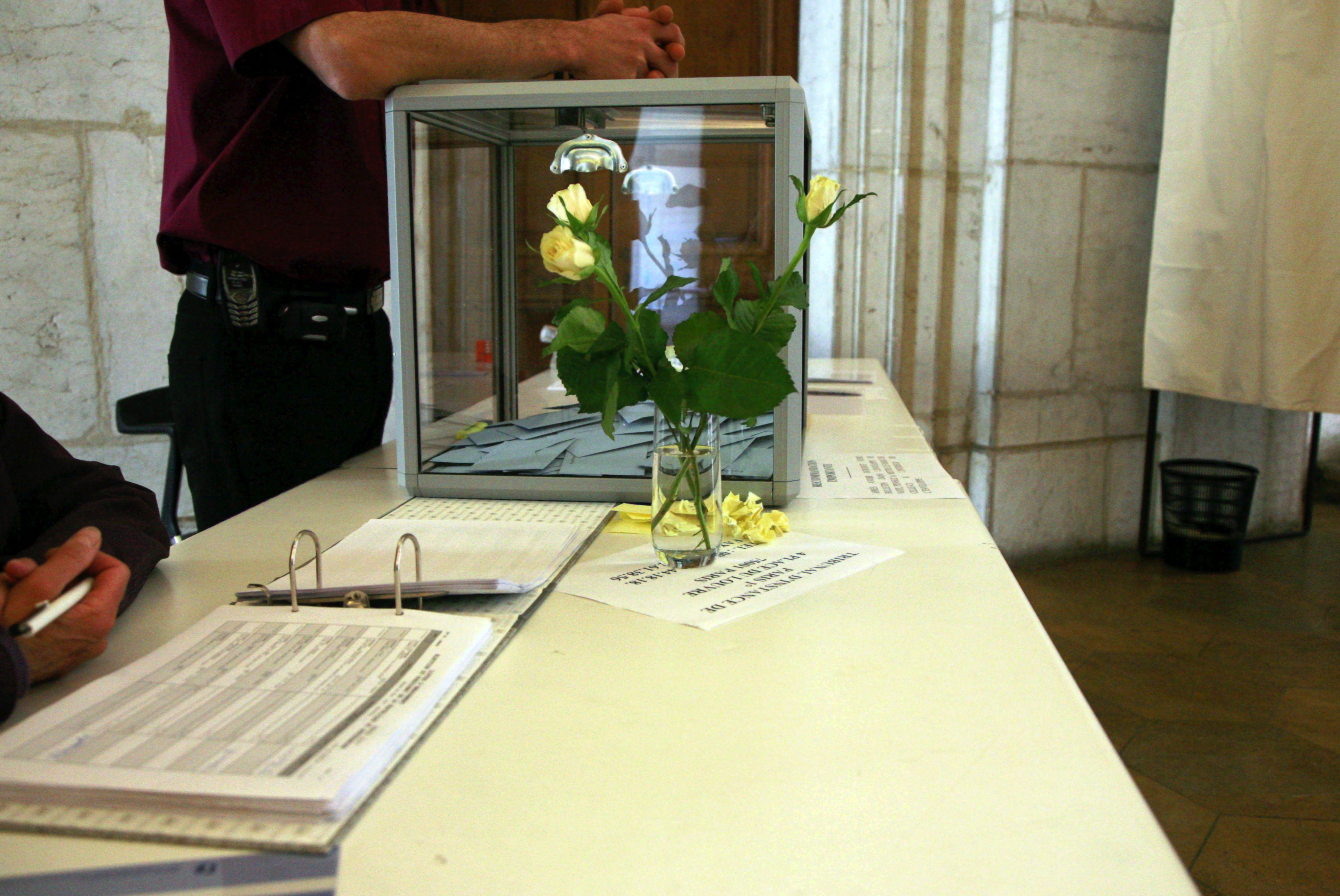 French presidential election 2007